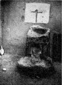 Cruz altar Herculaneum